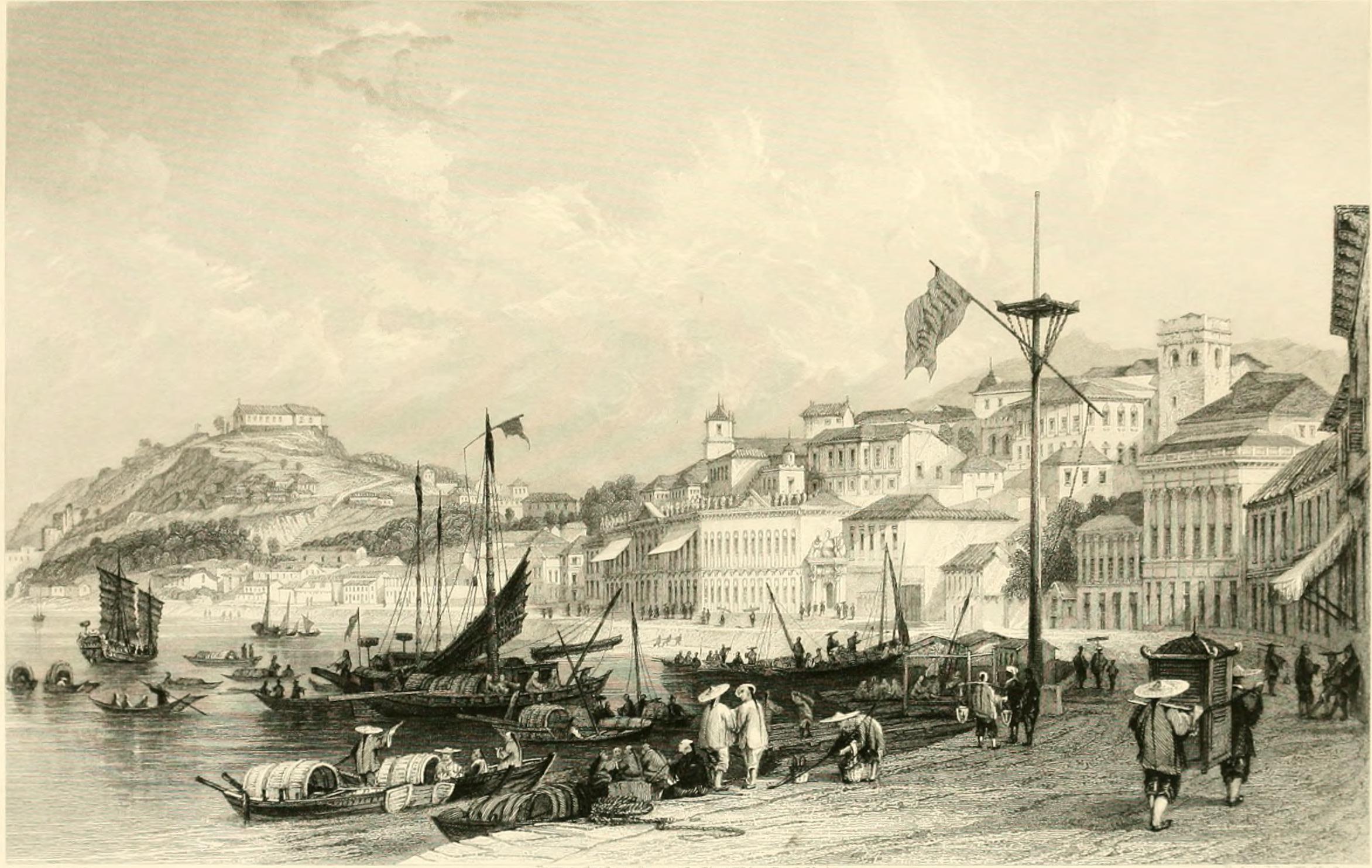 The Pria Granda, Macao